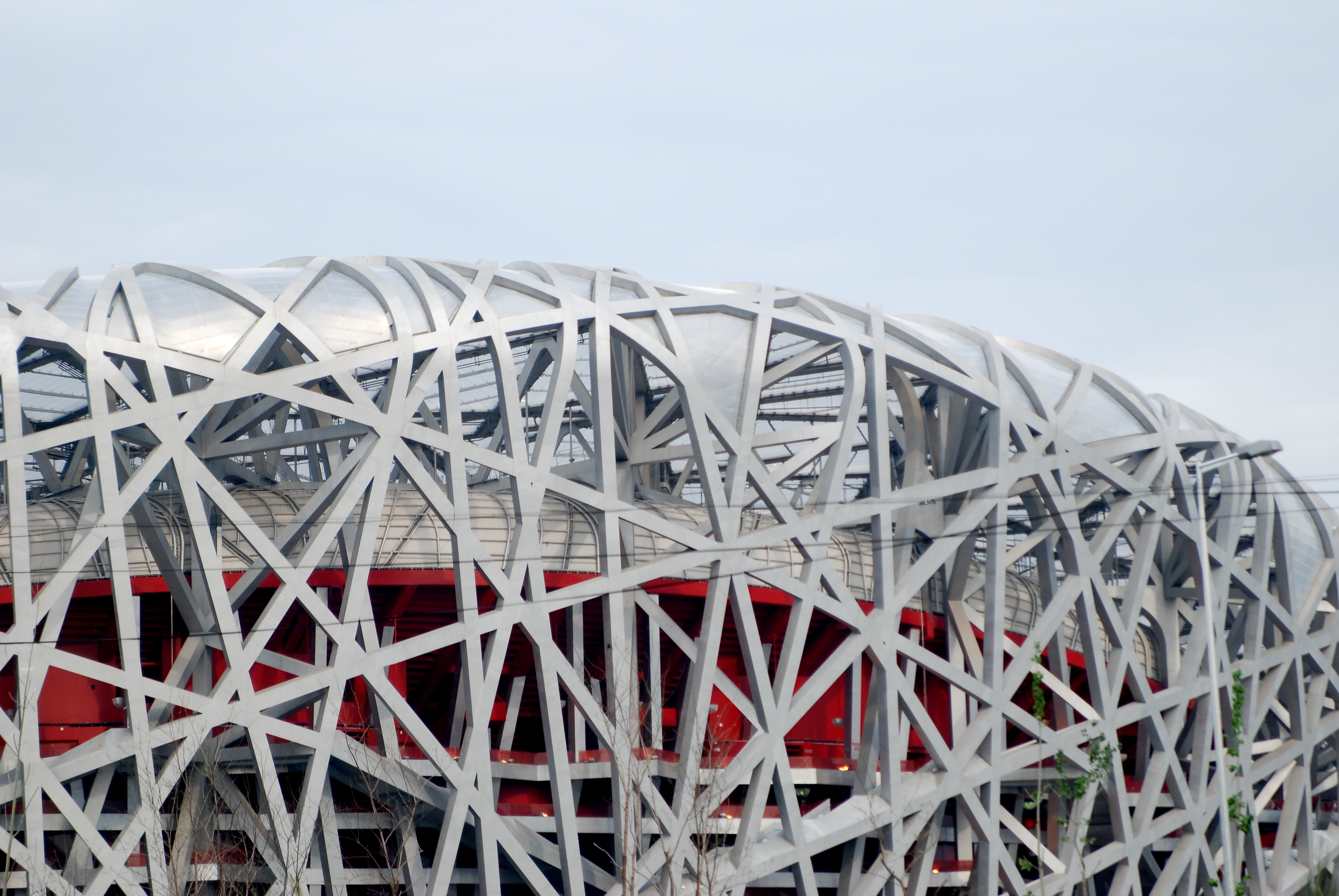 The Beijing National Stadium.